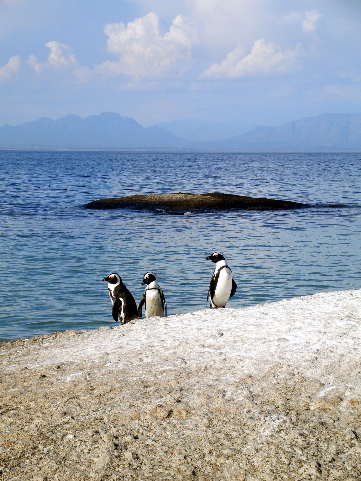 Three African penguins (Spheniscus demersus). These penguins were observed on Boulder Beach near Cape Town, South Africa.